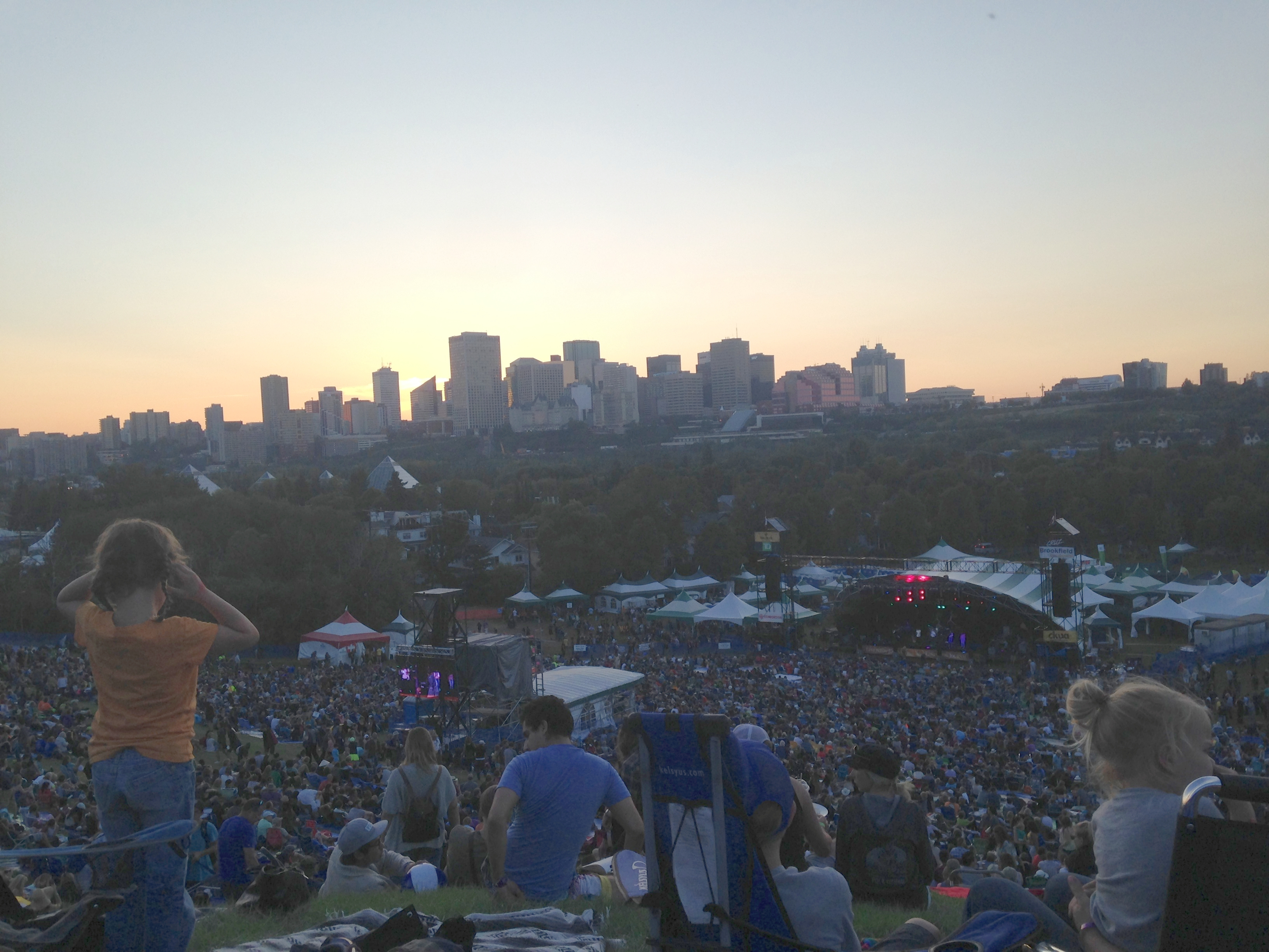 View of Edmonton downtown from Edmonton Folk Music festival in the evening.